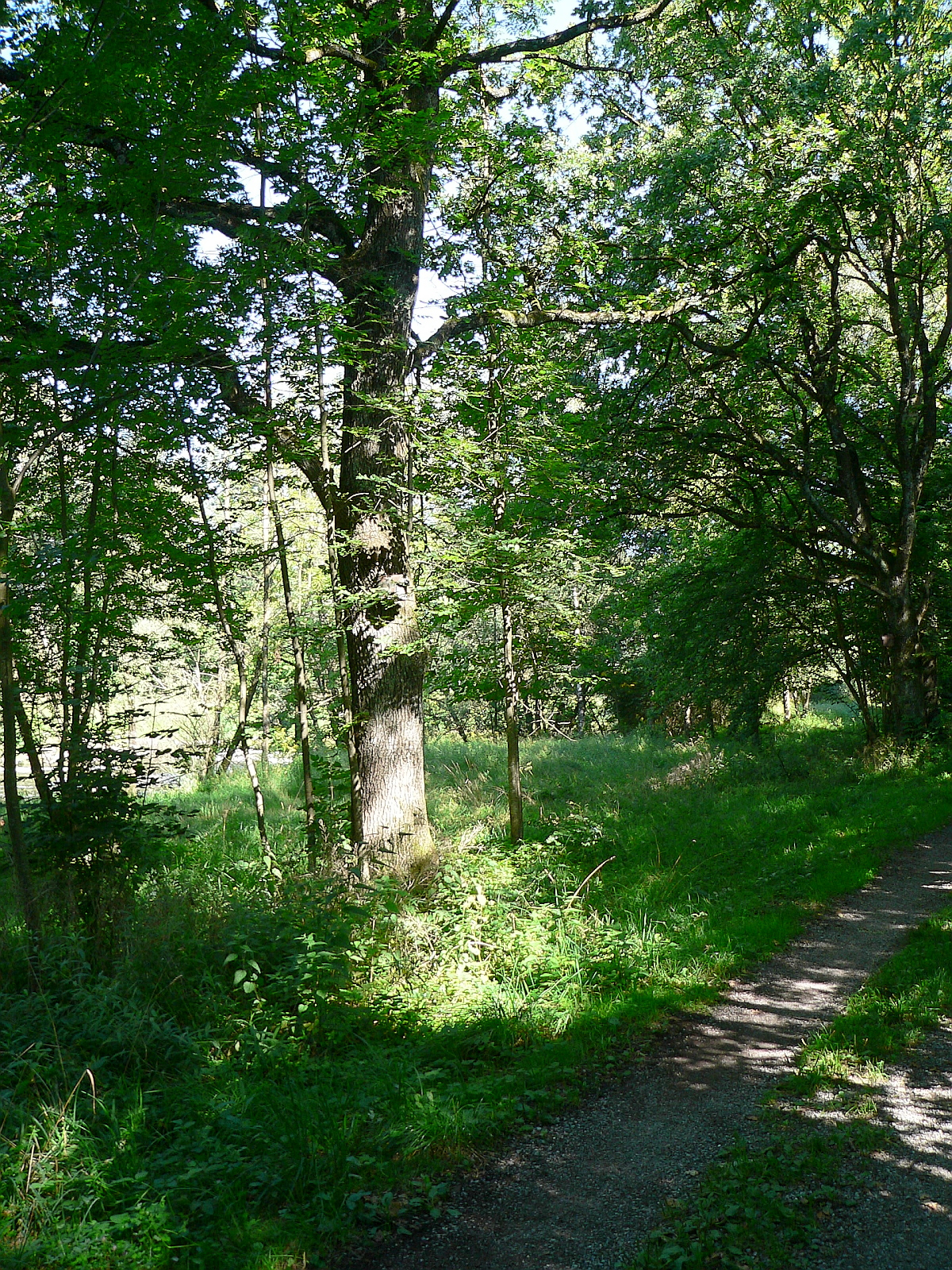 Habitat of Dendrocopos medius